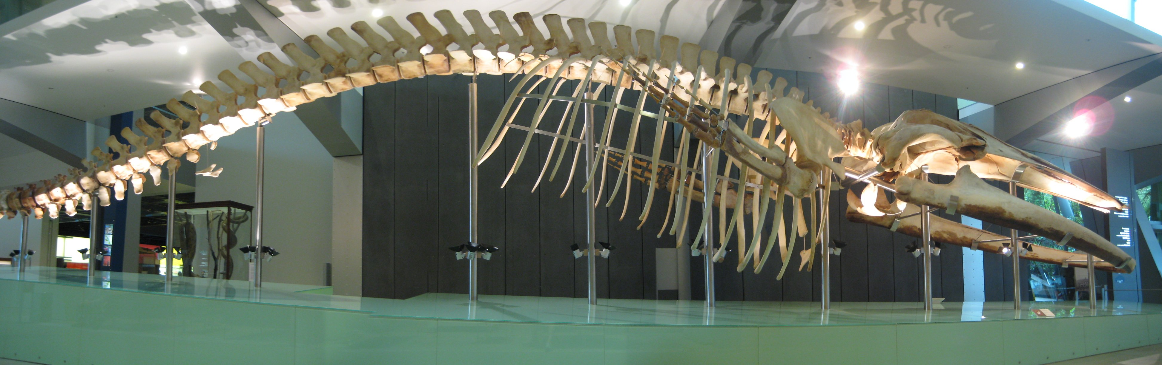 A Pygmy Blue Whale that washed ashore at Cathedral Rock, near Lorne in western Victoria, in 1992. Its skeleton is on display at the Melbourne, Museum. Stitched together from three photographs using hugin.